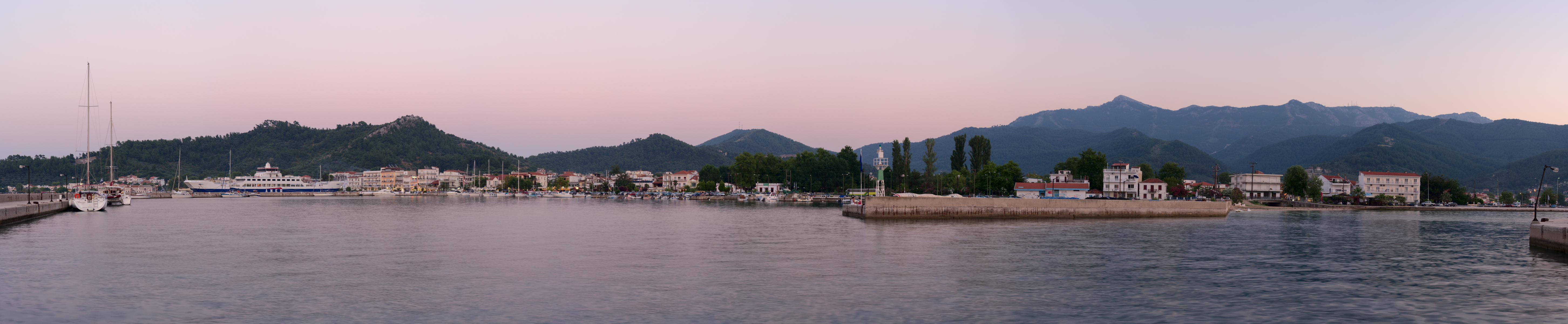 The view on the harbour of Limenas, Thasos island, Greece